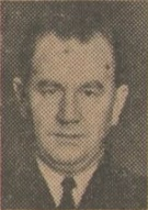 Captain Per Gustav Lindgren